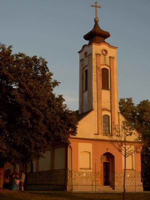 Orthodox church in Borča